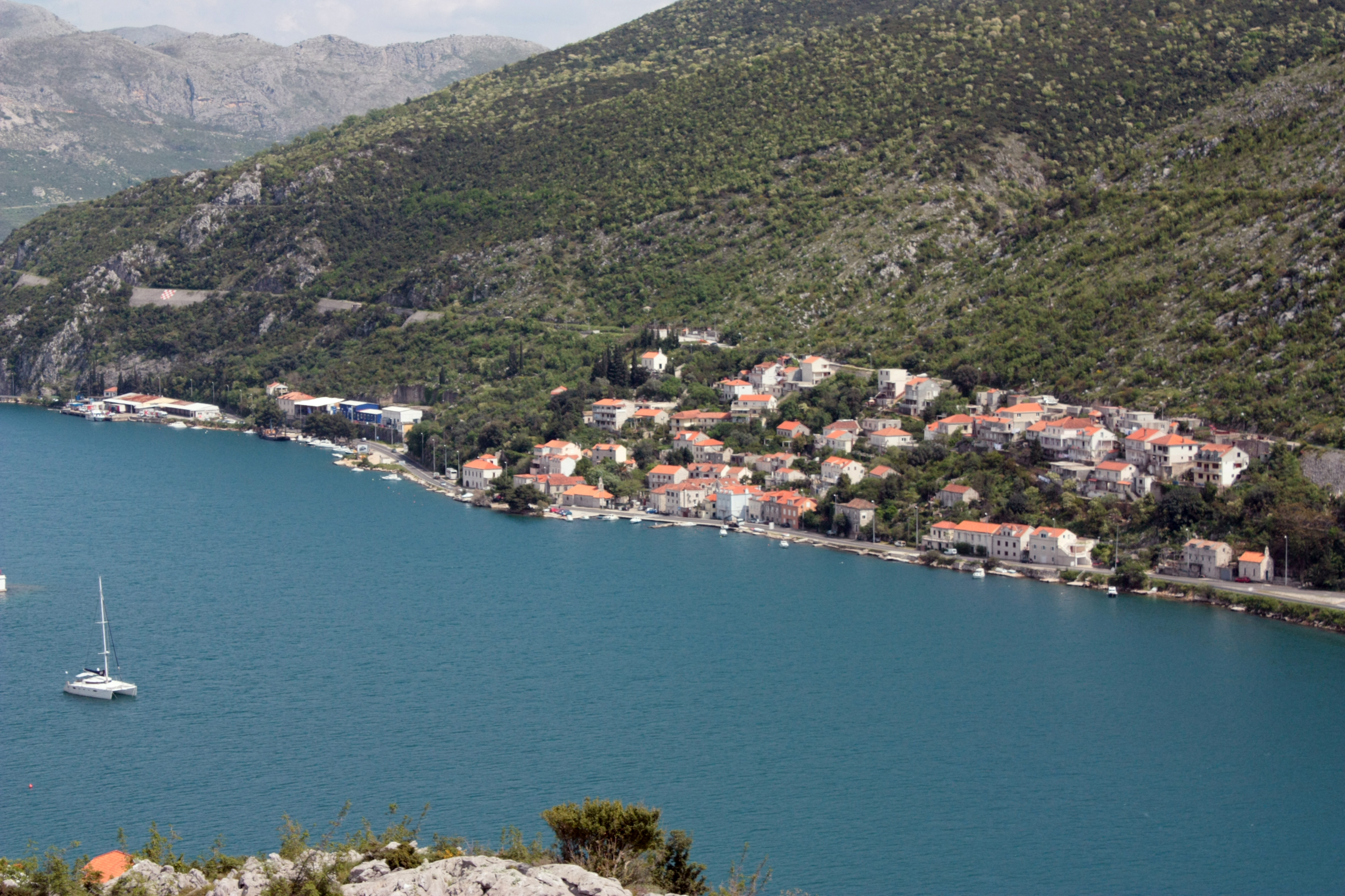 Sustjepan, village near Dubrovnik